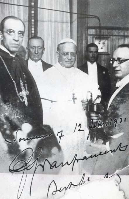 Pope Pius XI and Eugenio Pacelli on the Vatican radio inauguration - 1931 In the background, Guglielmo Marconi.